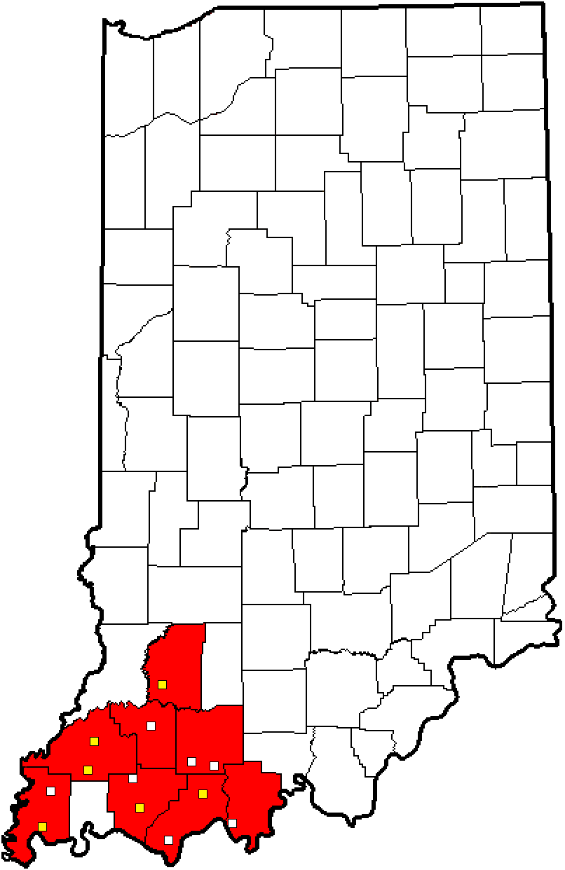 The Pocket Athletic Conference as of Fall 2020. The Yellow Squares are Large School Division Members, The White Square are the Small School Division members